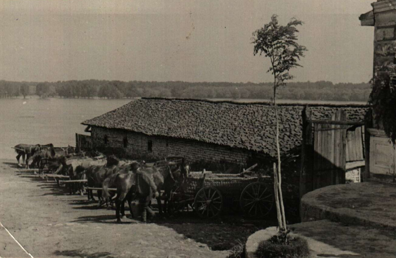 Tutrakan, Bulgaria